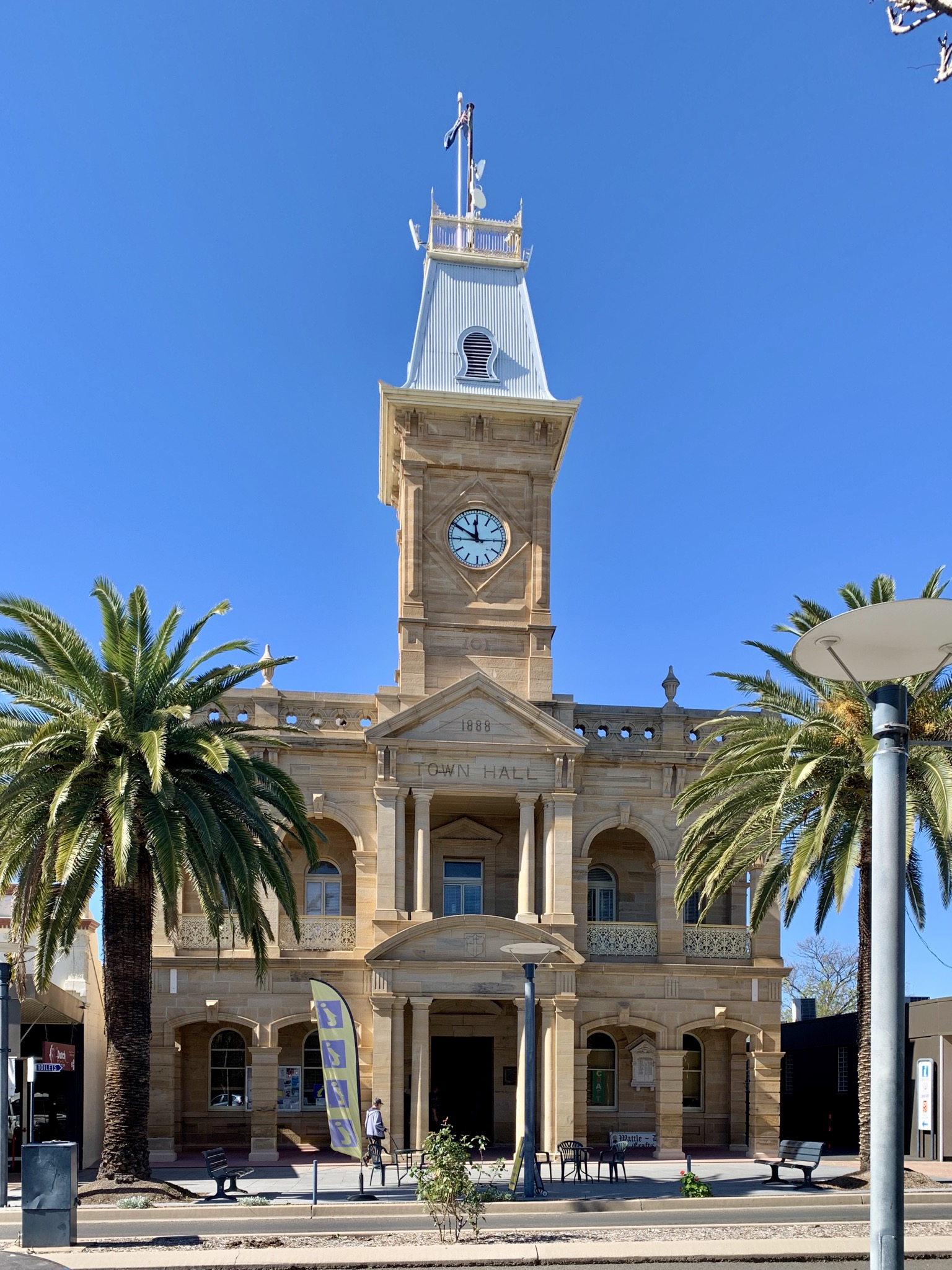 Warwick Town Hall, Warwick, Queensland, June 2020